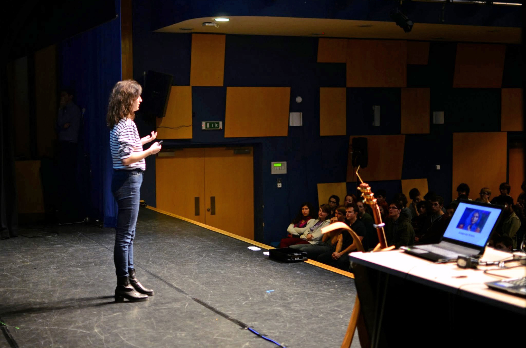 Coralie Colmez giving a lecture to students Photo by Ben Sparks